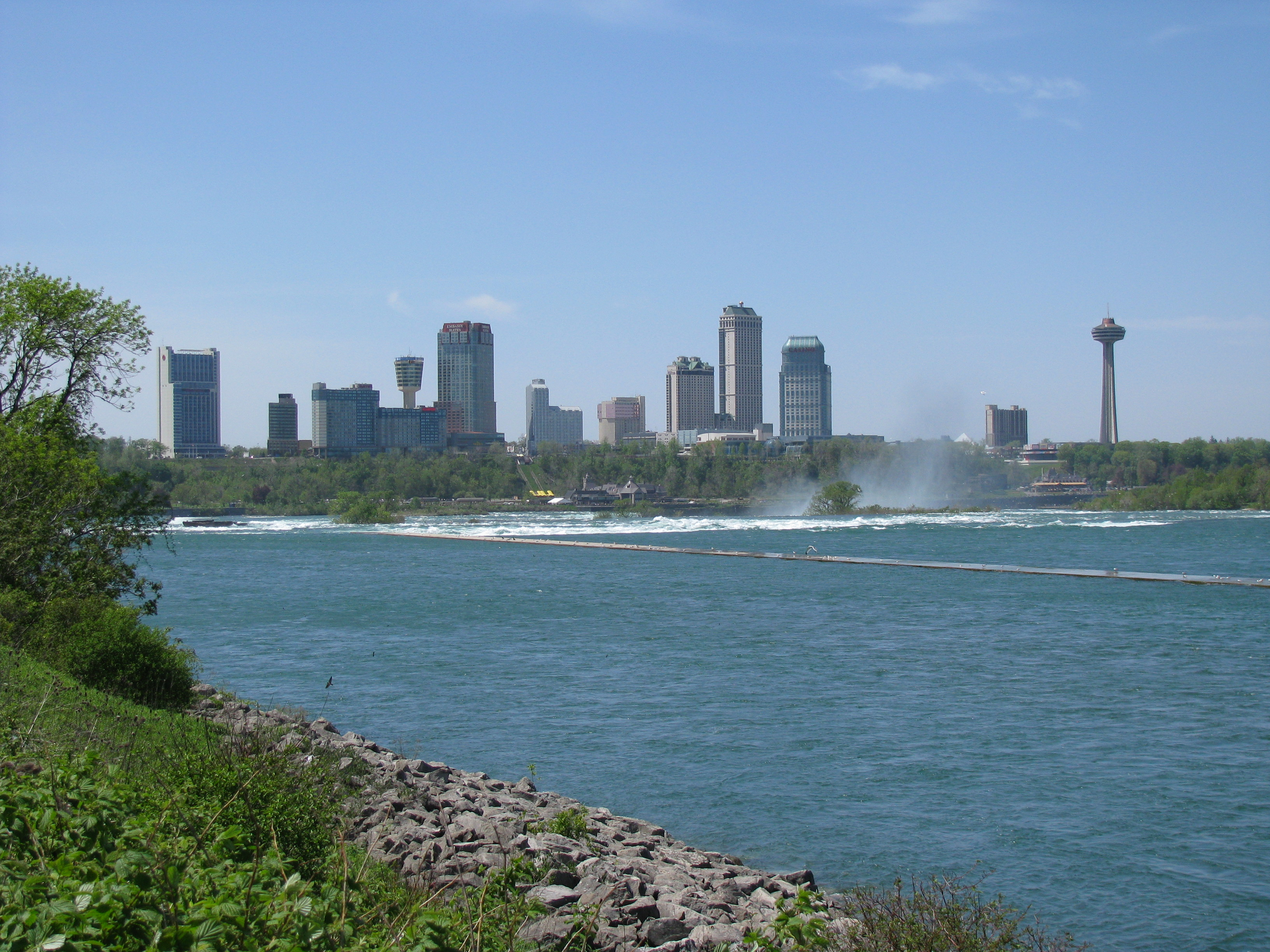 Skyline of Niagara Falls, Ontario, from Niagara upstream. Buildings from left to right: Marriott on the Falls Hotel, Radisson Hotel & Suites Fallsview, Marriott Niagara Falls Hotel Fallsview & Spa, Tower Hotel, Embassy Suites by Hilton, The Oakes Hotel Overlooking the Falls, Four Points by Sheraton Niagara Falls, Hilton Niagara Falls (Tower 1, Tower 2), Niagara Fallsview Casino Resort, Niagara Falls IMAX Theatre, DoubleTree Fallsview Resort & Spa by Hilton, Skylon Tower.